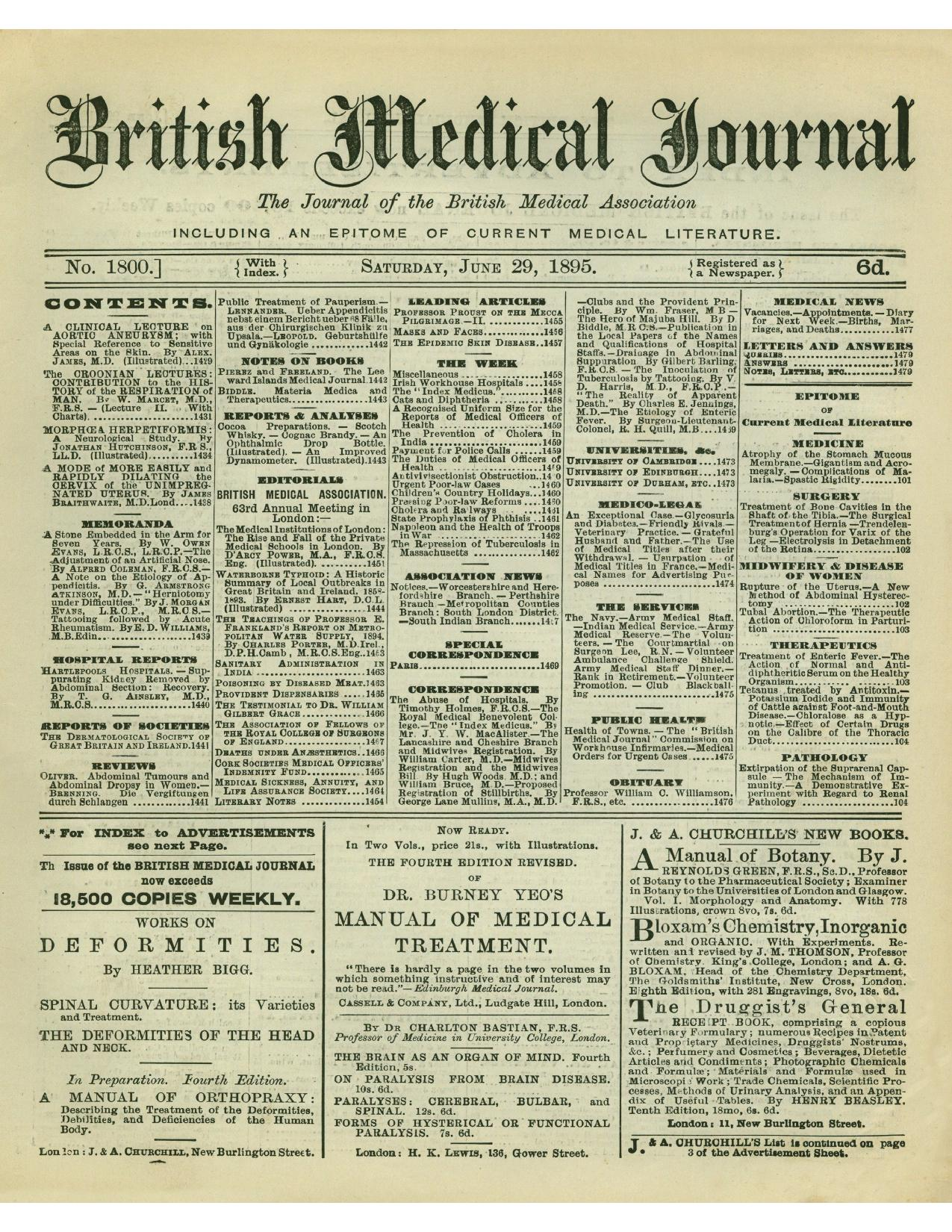 Saturday, June 29, 1895 edition of the British Medical Journal